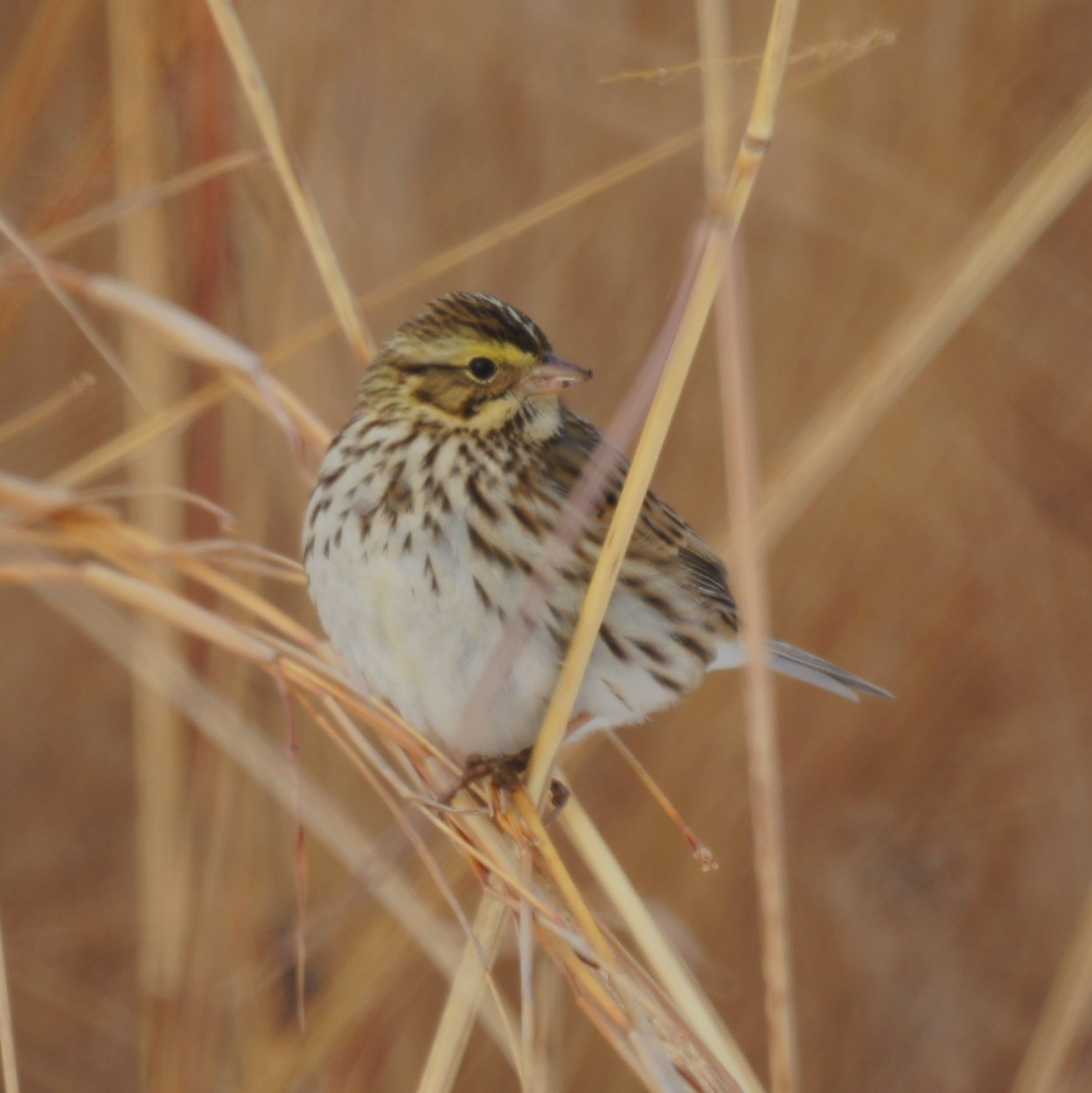 Savannah Sparrow, photo taken near Carpentersville, Pohatcong Township, New Jersey